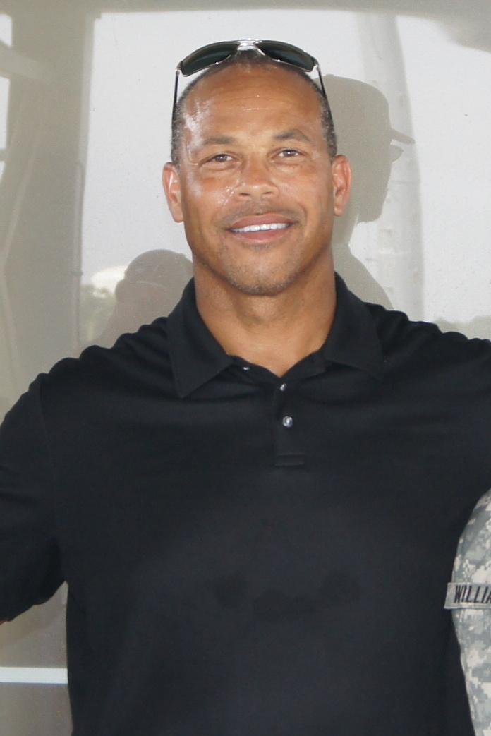 Rasheed Wallace (NBA) (left) and Brian Hunter (MLB) (right) along with Darrell Miller (left), VP Youth and Facility Development MLB and COL Donald Williams, Deputy Director for Operations and Training US Army Accessions Command (right) pose for a picture during a game in the 2011 MLB Breakthrough Series.